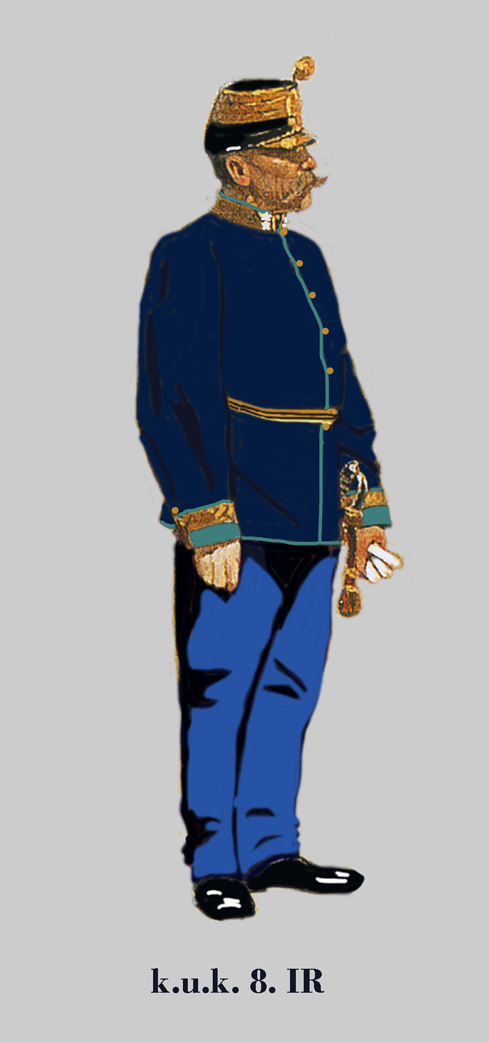 Lieutenant-Colonel of the k.u.k. 8th german Infantry Regiment in parade dress 1914